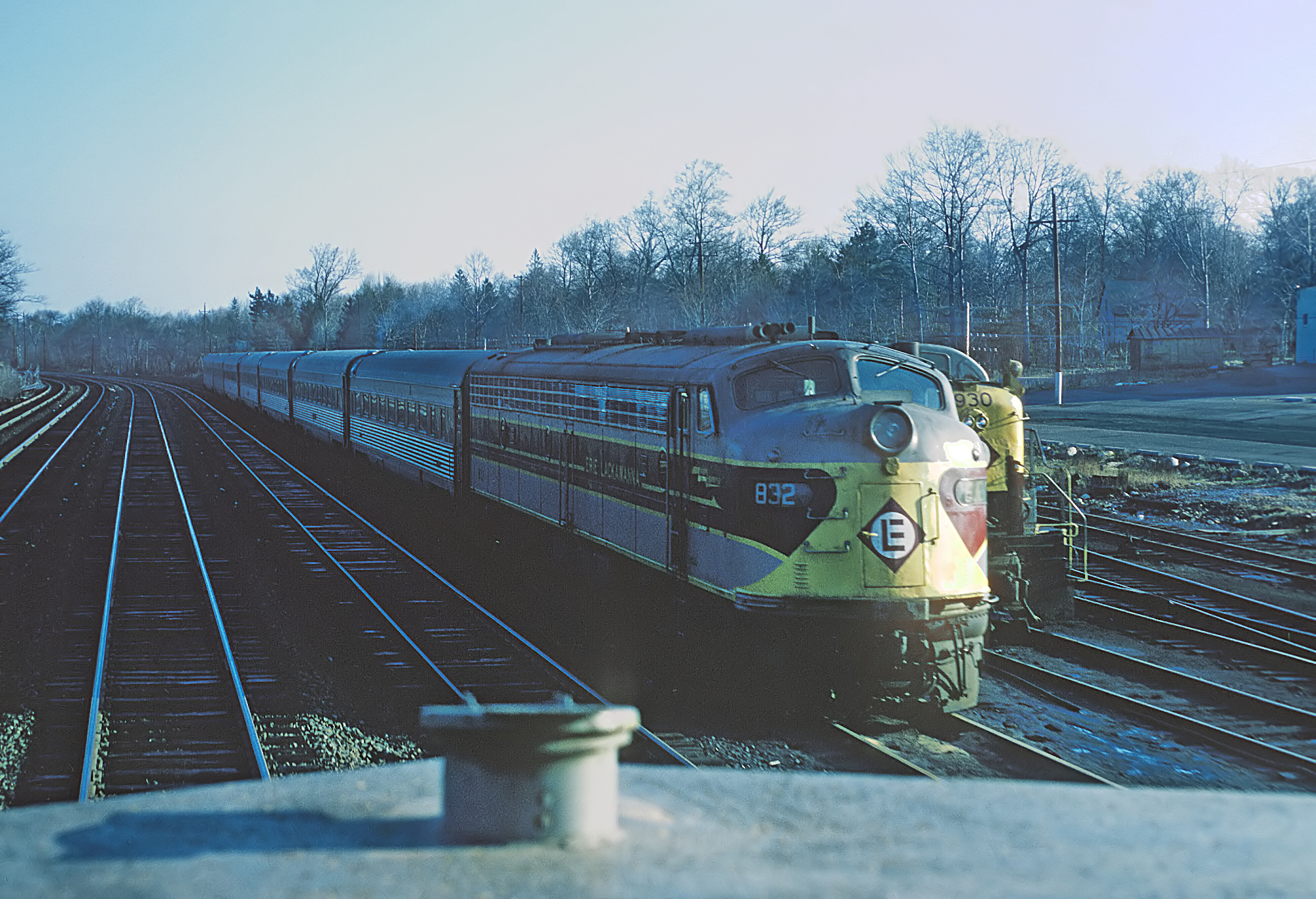 EL E8A 832 at Waldwick, NJ Yards.